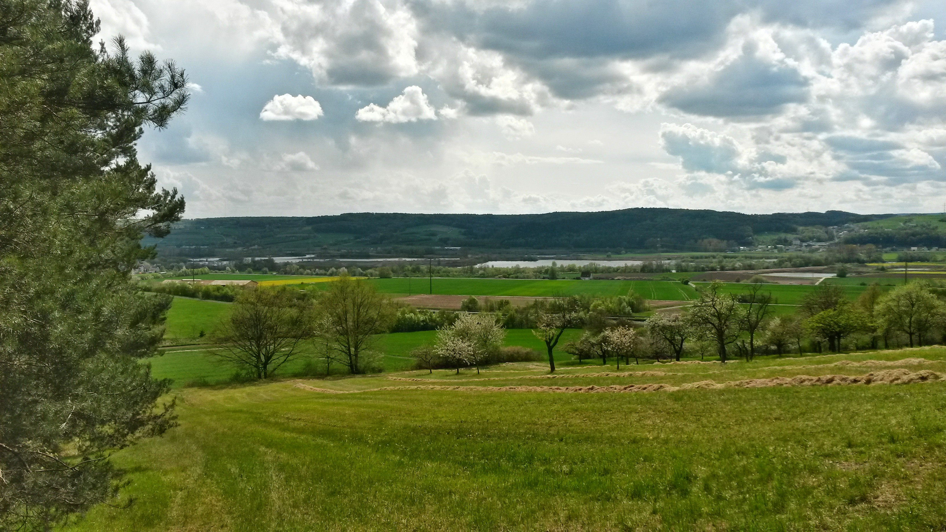 (NSG:BY-NSG-00332.01)_slopes at Spitzlberg and Kunkelsbühl